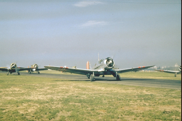 Douglas 8A on the runway, Little Norway, Canada